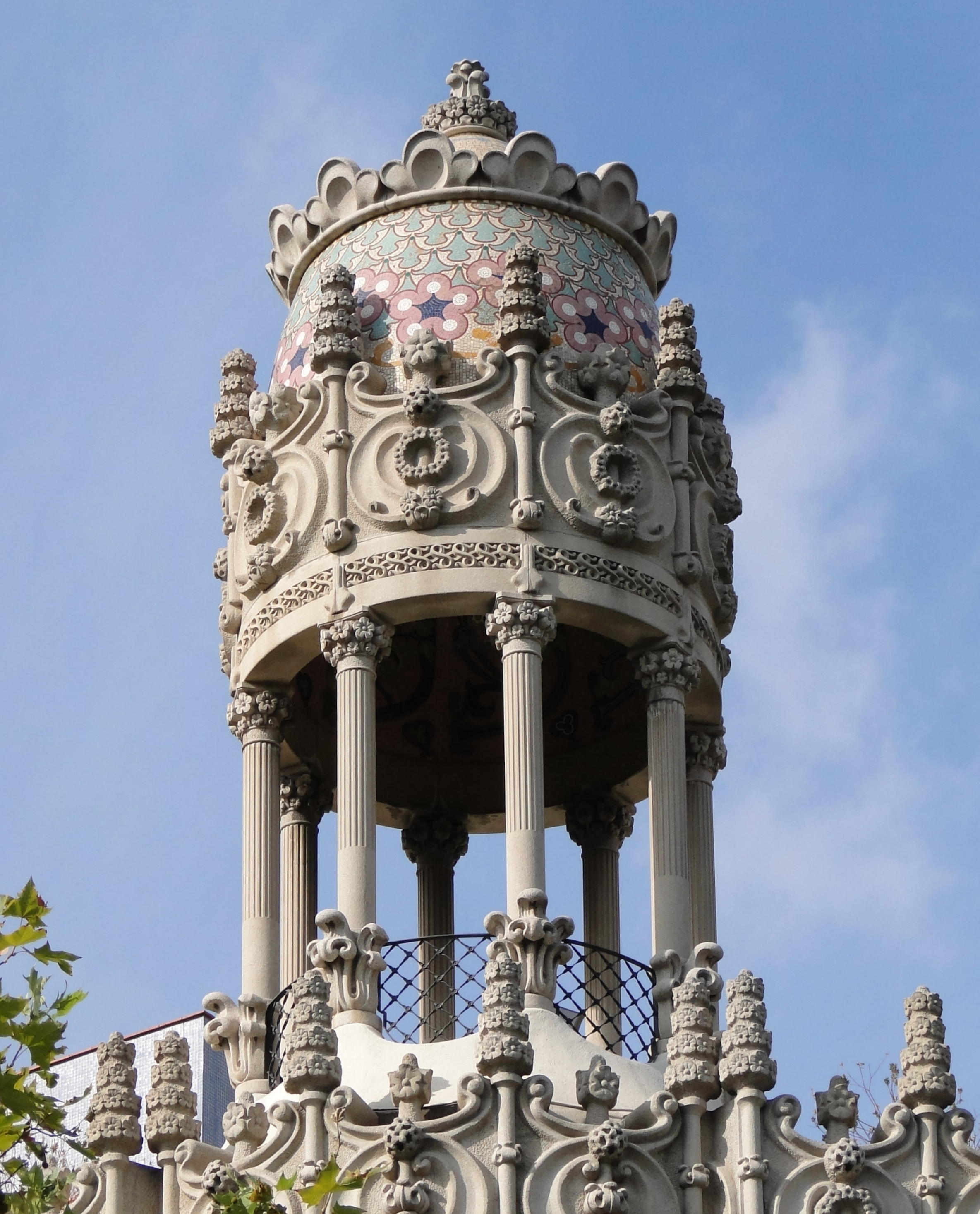 Rotunda on the top of Casa Lleó Morera designed by architect Lluís Domènech i Montaner, Barcelona, Spain